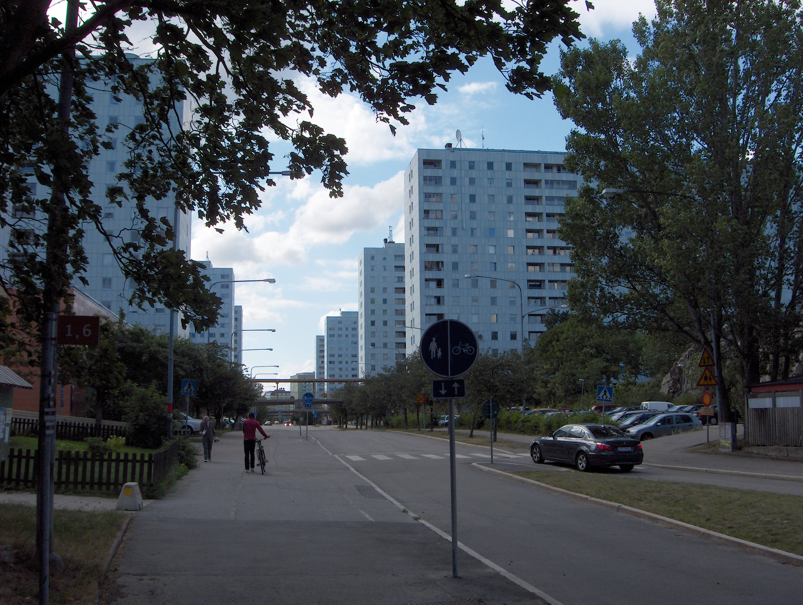 A characteristically blue building in Hagalund, Solna, Sweden.